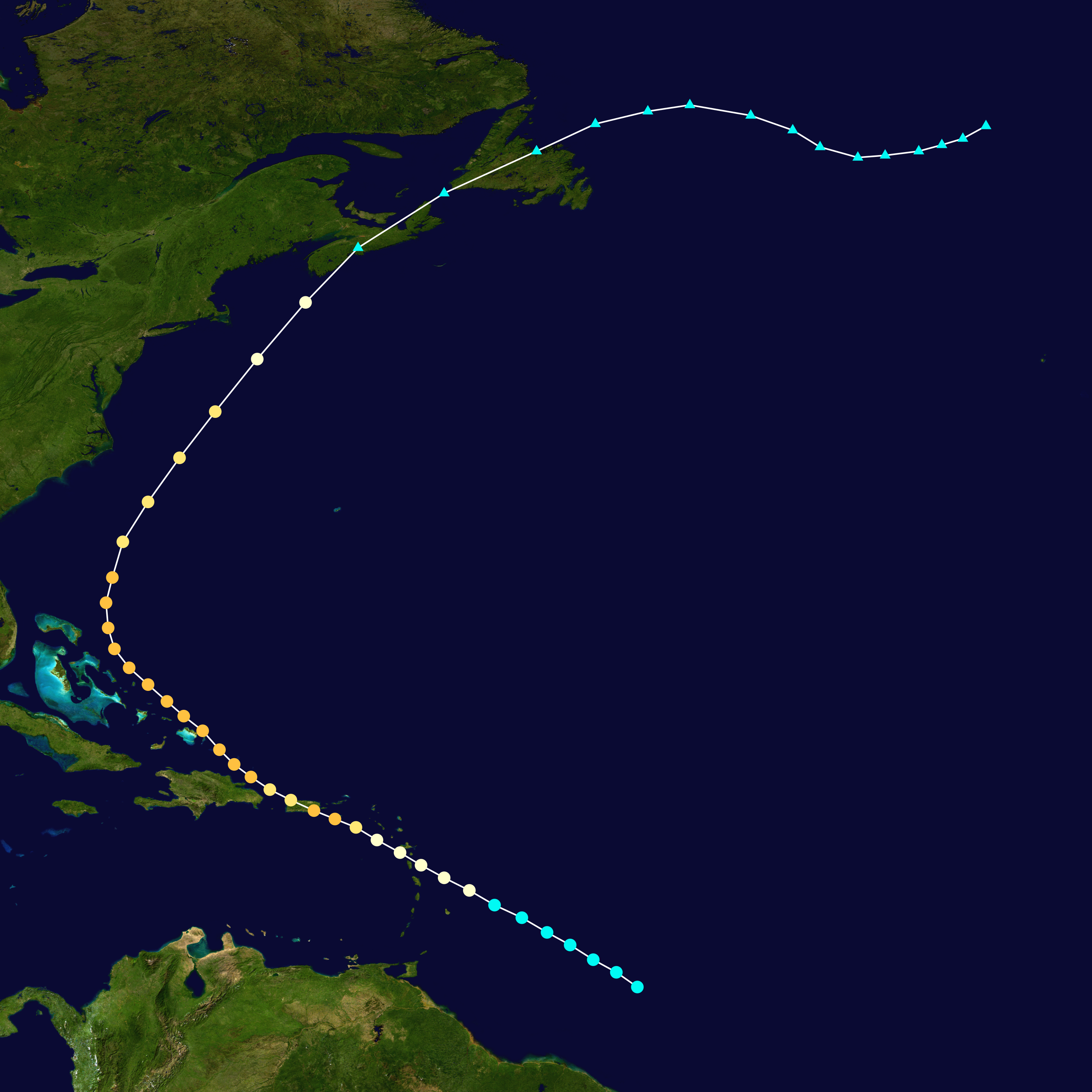 1893 Atlantic hurricane 3 track. Uses the color scheme from the Saffir-Simpson Hurricane Scale.